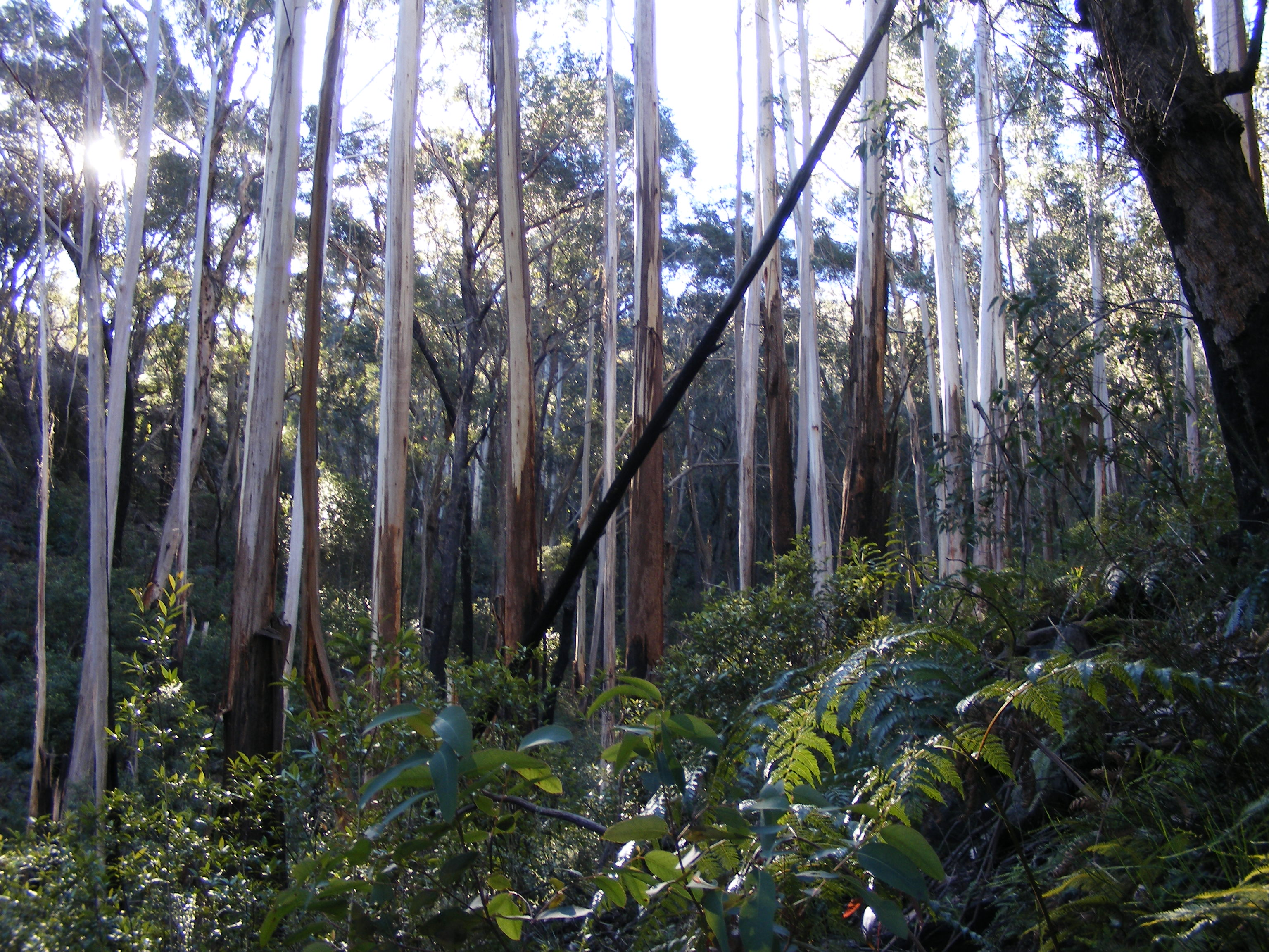 On the Grand Canyon Walking Track in the Blue Mountains New South Wales